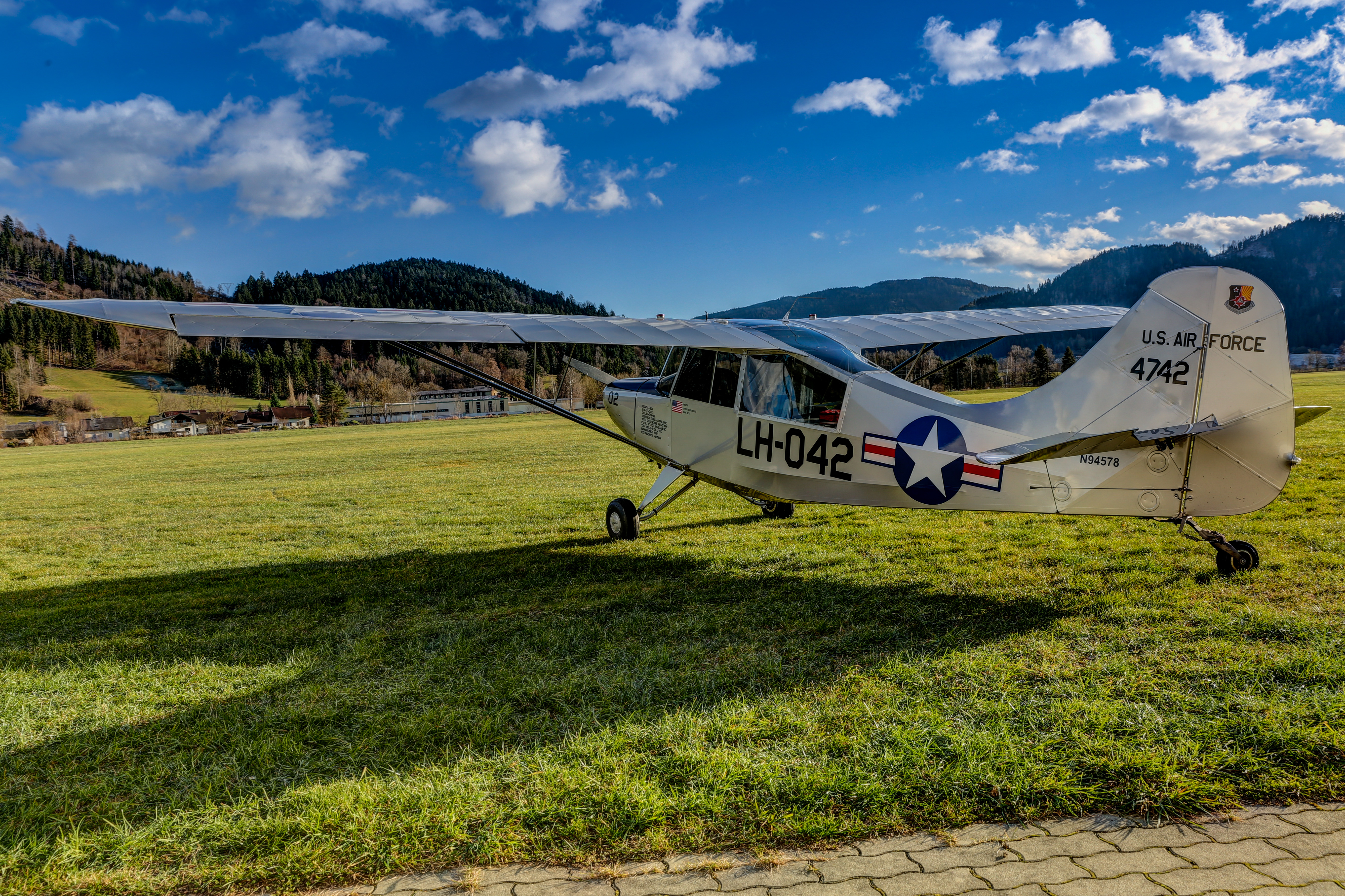 Aircraft (Light Aircraft) Aeronca L-16 7BCM at the airfield of Feldkirchen in Carinthia / Austria / EU. This fully restored 1947 built aircraft was a liaison aircraft for the US Army,[2] as they were mainly used in the Korean War. It is a militarized version of the Aeronca Champion. For the photo of the sport aircraft including inscriptions there is a property release.